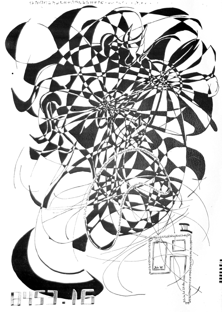 Sample of steganart drawing